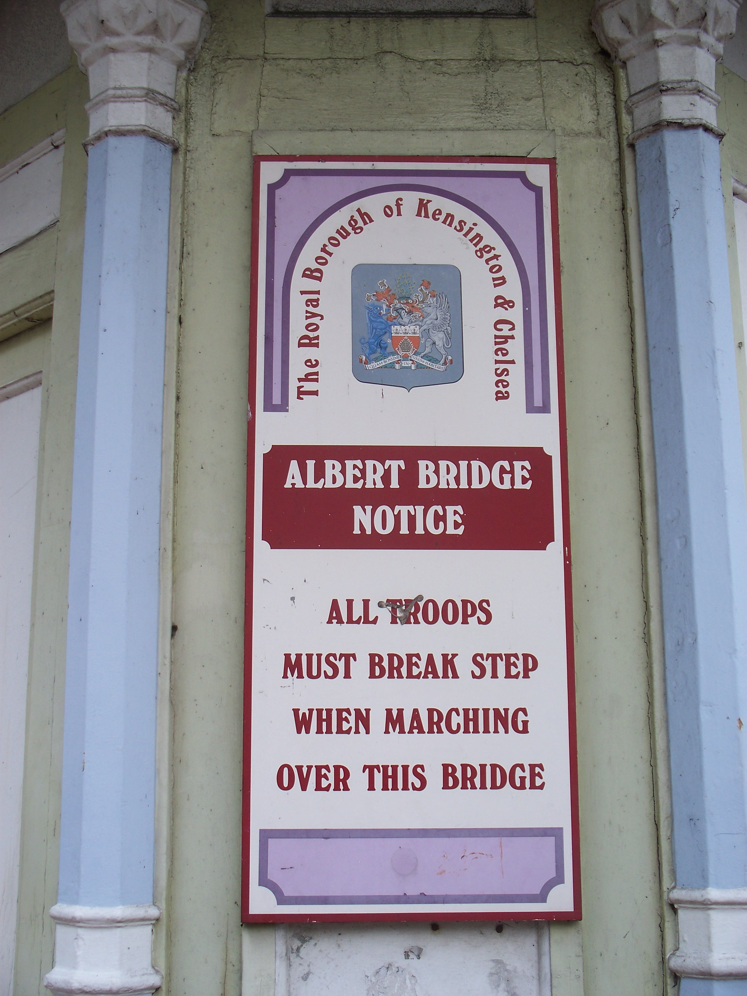 Albert Bridge, London. Photograph taken in a public location in the UK of a building on permanent public display, and exempt from copyright under Section 62 of the Copyright Designs & Patents Act 1988 ("it is not an infringement of copyright to film, photograph, broadcast or make a graphic image of a building, sculpture, models for buildings or work of artistic craftsmanship if that work is permanently situated in a public place or in premises open to the public")